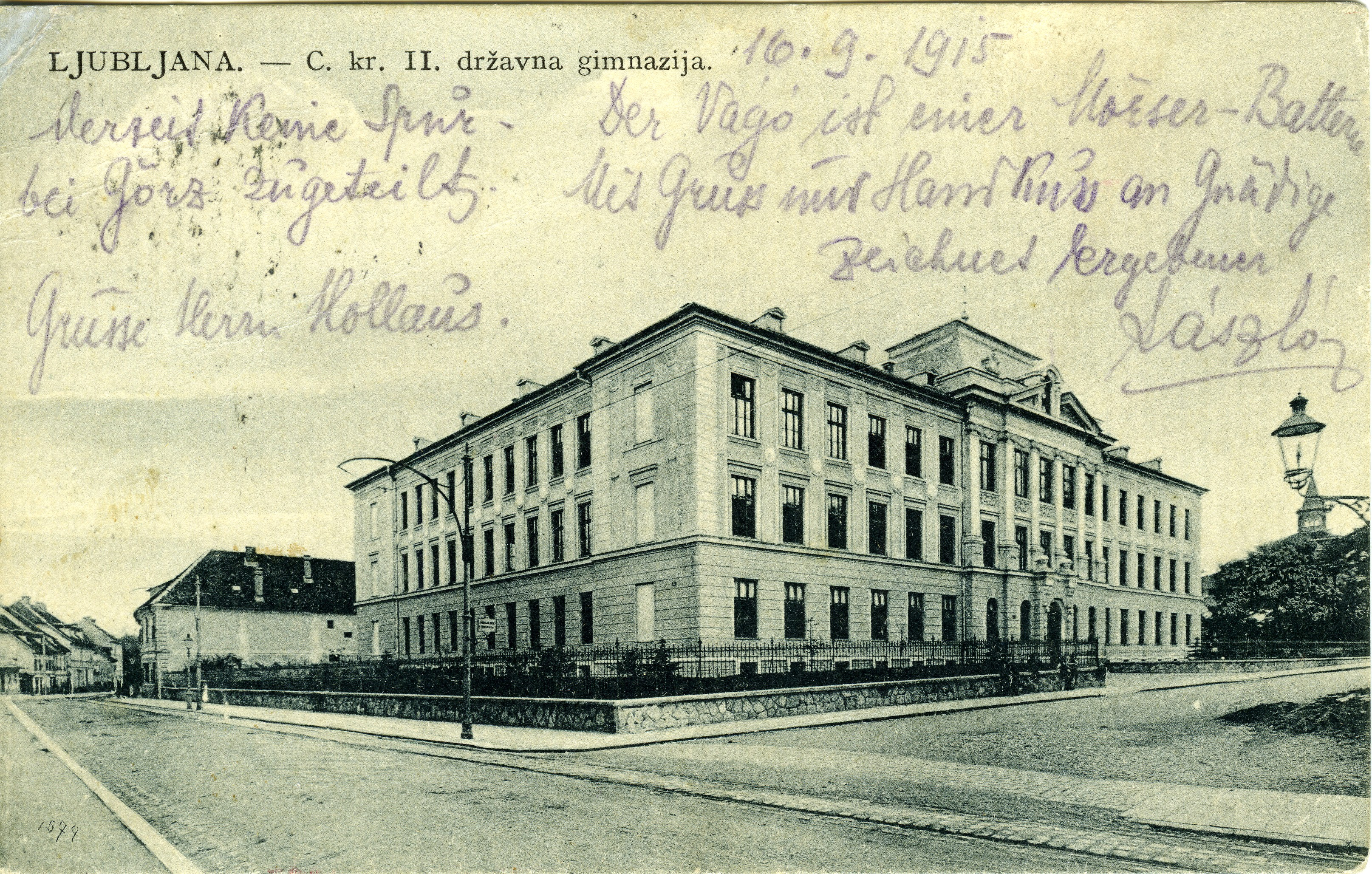 Postcard of Poljanska II klasična gimnazija.